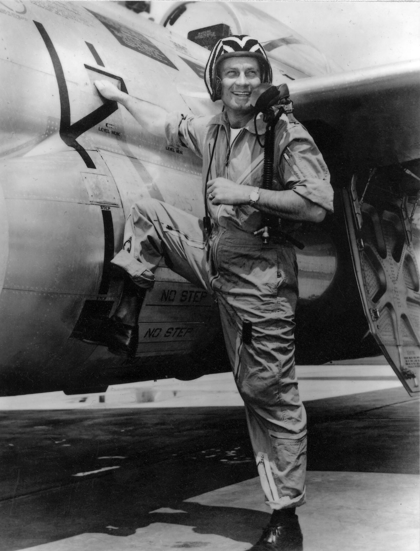 This Air Force Museum page gives the following photograph information: Brigadier General Clinton D. "Casey" Vincent, early 1950s, near F-89 Scorpion fighter aircraft.